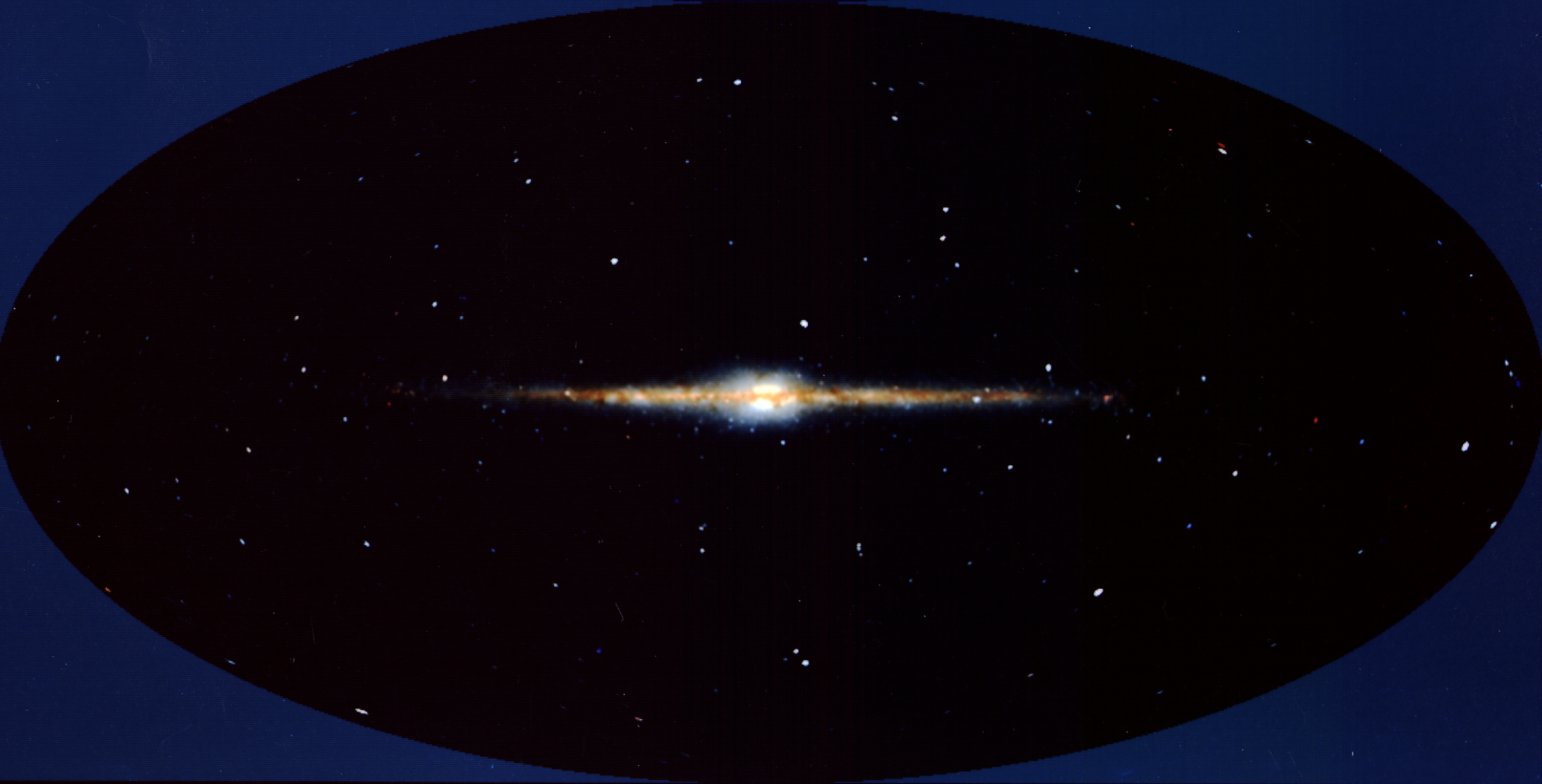 From its orbit around Earth, the Goddard Space Flight Center's Cosmic Background Explorer (COBE) captured this edge-on view of our Milky Way galaxy in infrared light, a form of radiation that humans cannot see but can feel in the form of heat, as part of its mission to test the "Big Bang" theory of the creation of the universe. The theory, first proposed in 1927 by Belgian cosmologist Georges Lematre, holds that the universe began as an incredibly dense "primeval atom" that exploded with tremendous force, unleashing matter and space at the speeds of light. NASA set out to prove the theory with the help of COBE. In addition to proving the Big Bang, the satellite discovered that the cosmic background radiation had indeed been produced in the Big Bang just as scientists originally speculated. The satellite's data even discovered the primordial temperature and density fluctuations that eventually gave rise to the Milky Way and other large-scale objects found in space today.